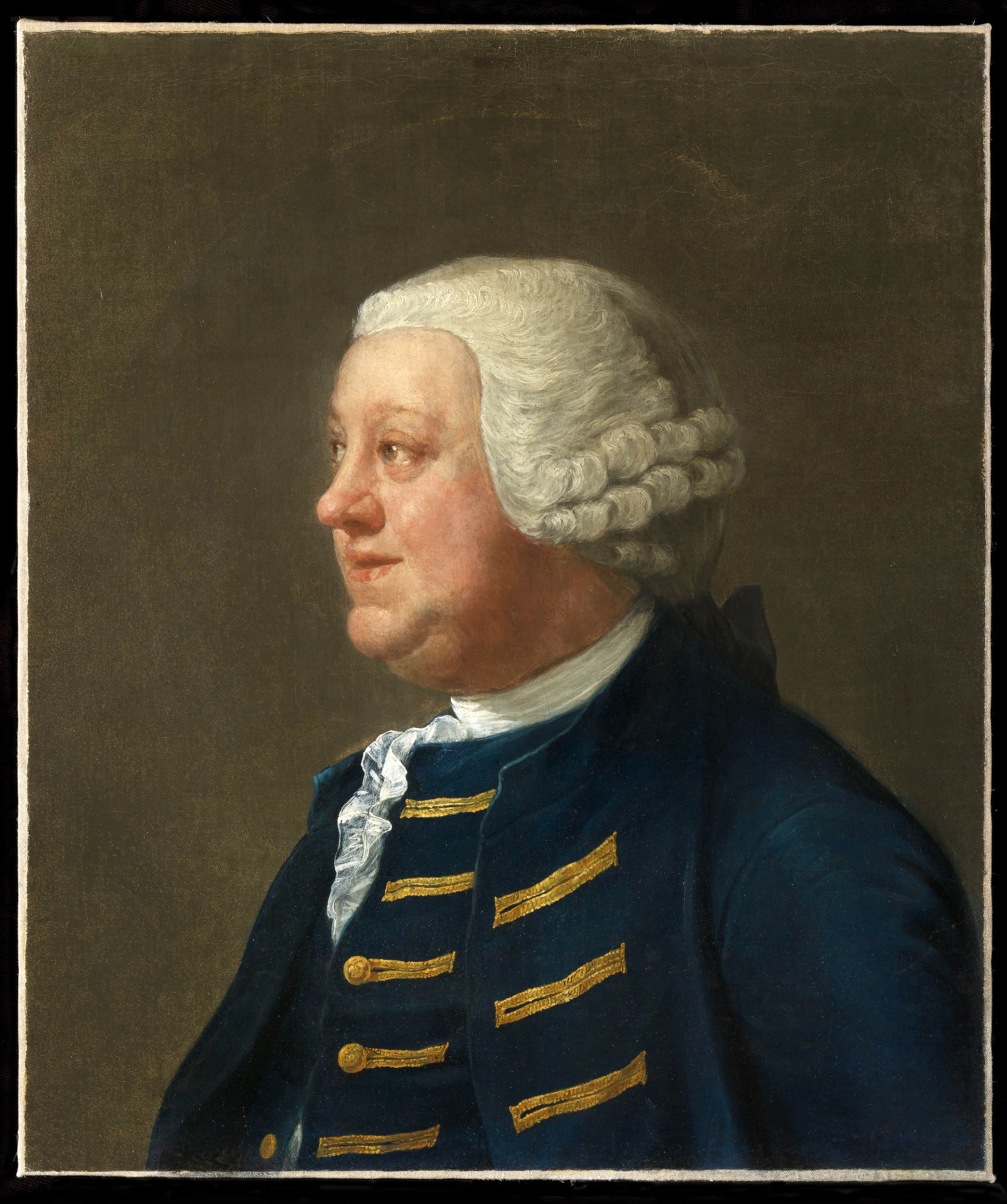 This painting, uncovered in 2015 is the only known likeness of John Rich. It has been fully restored and hangs in a museum in London. It is likely painted in between 1755-1761 in Rich's last years and is included in the catalogue raisonné of his contemporary William Hogarth.